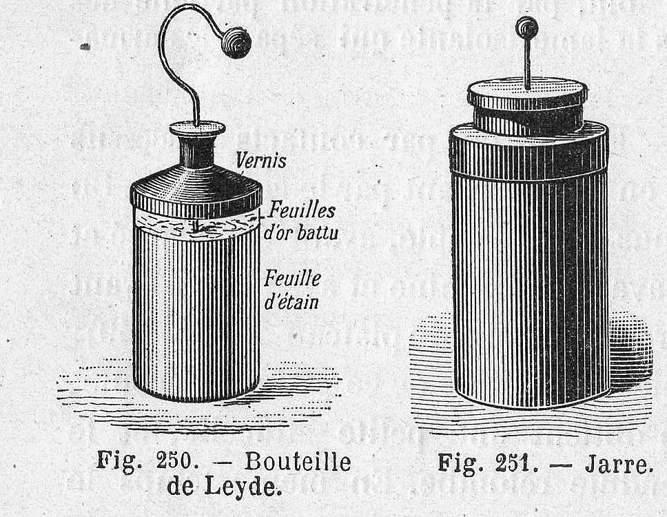 Drawing of Leyden jars